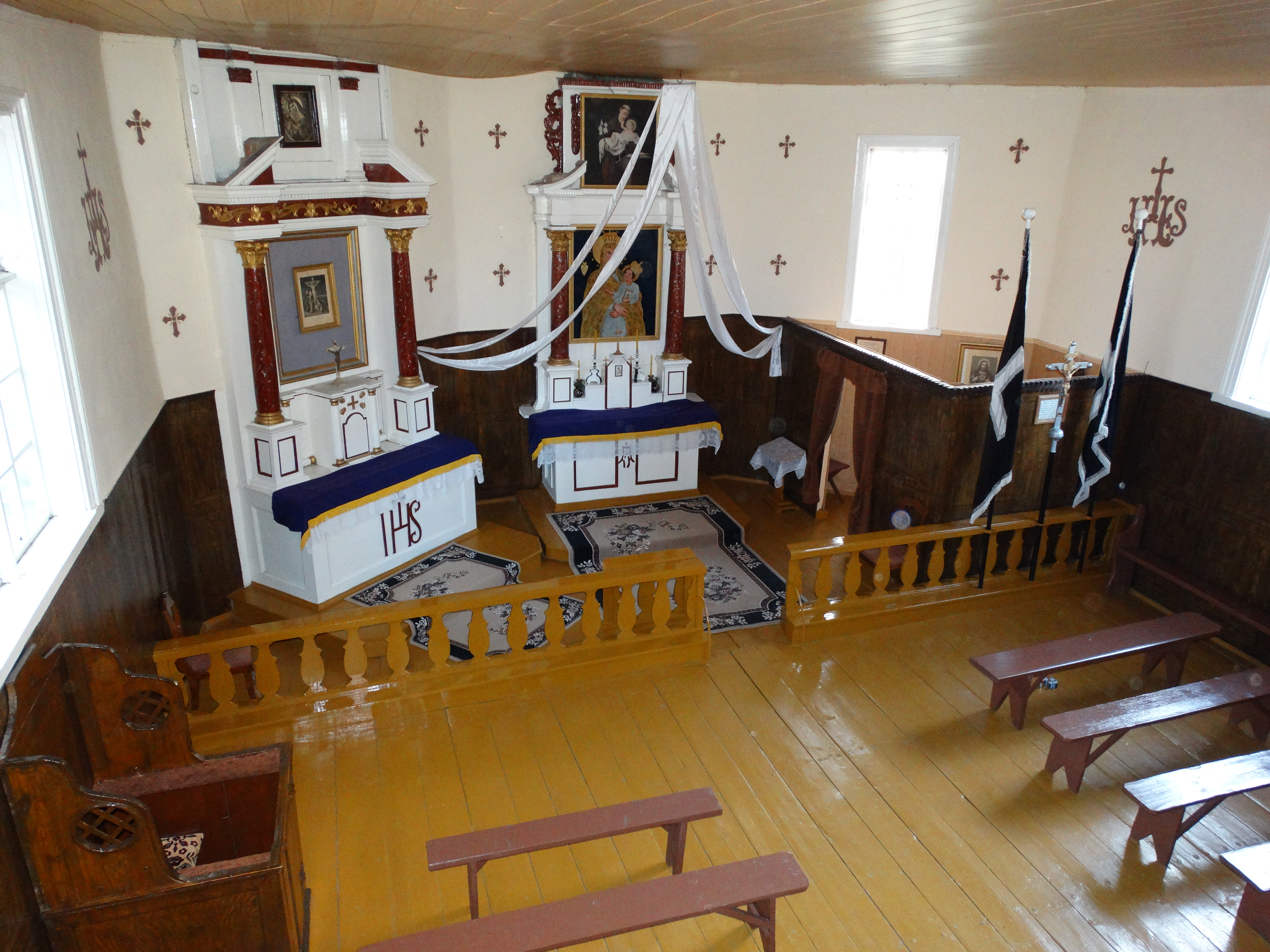 Chapel in Jasiuliškiai, Biržai district, Lithuania